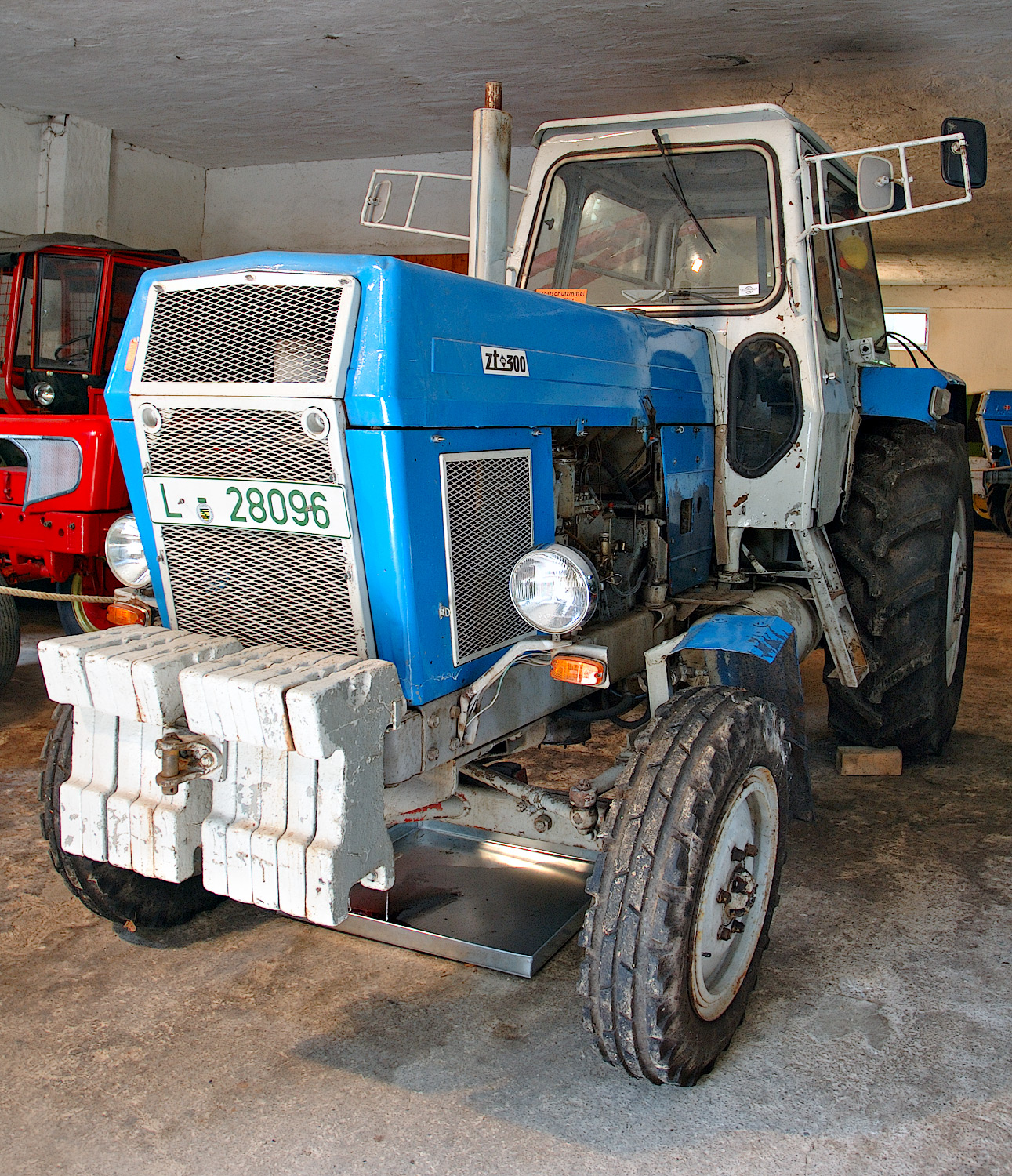 This image shows the GDR tractor Fortschritt ZT 300.